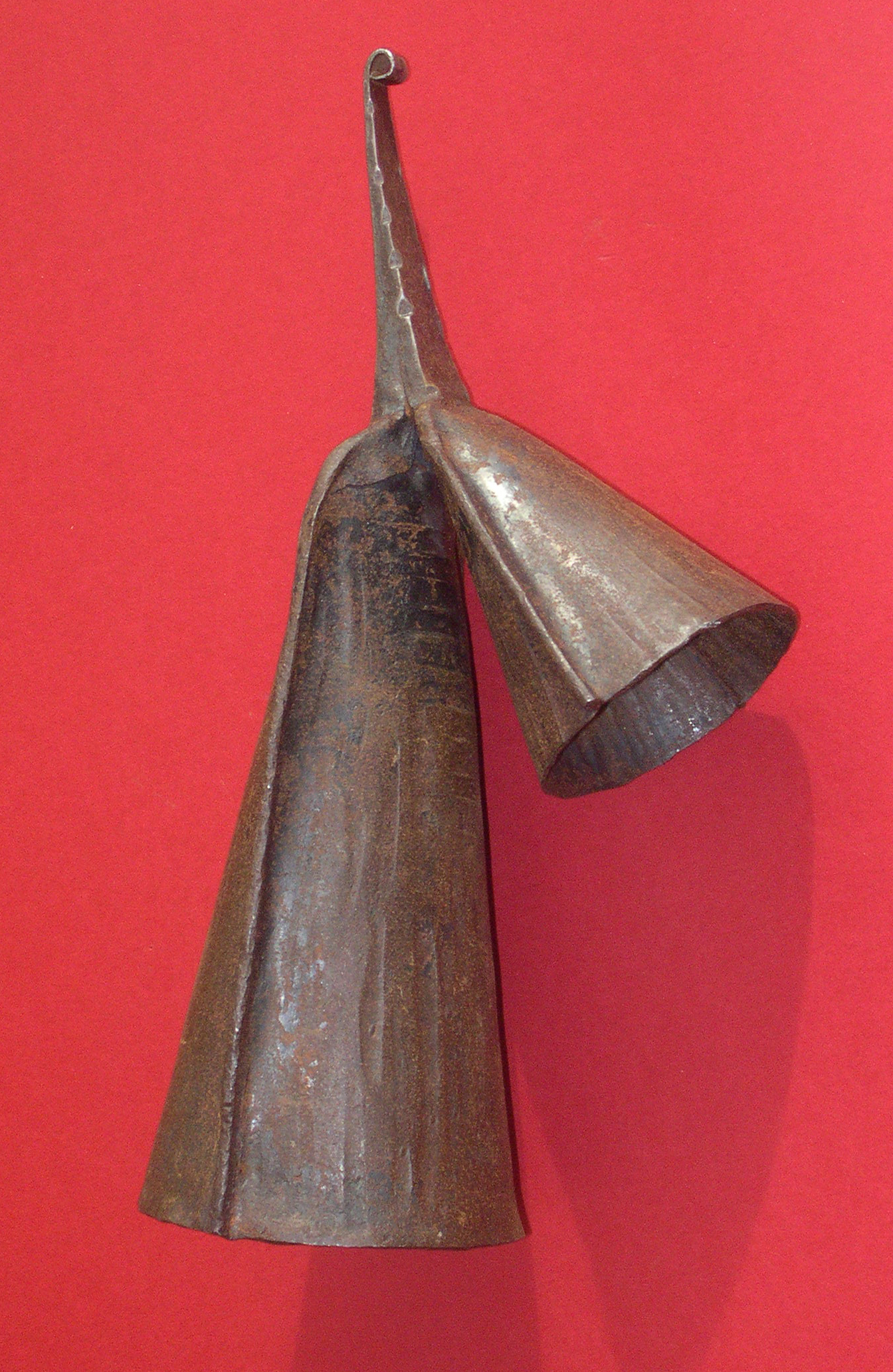 West African double bell